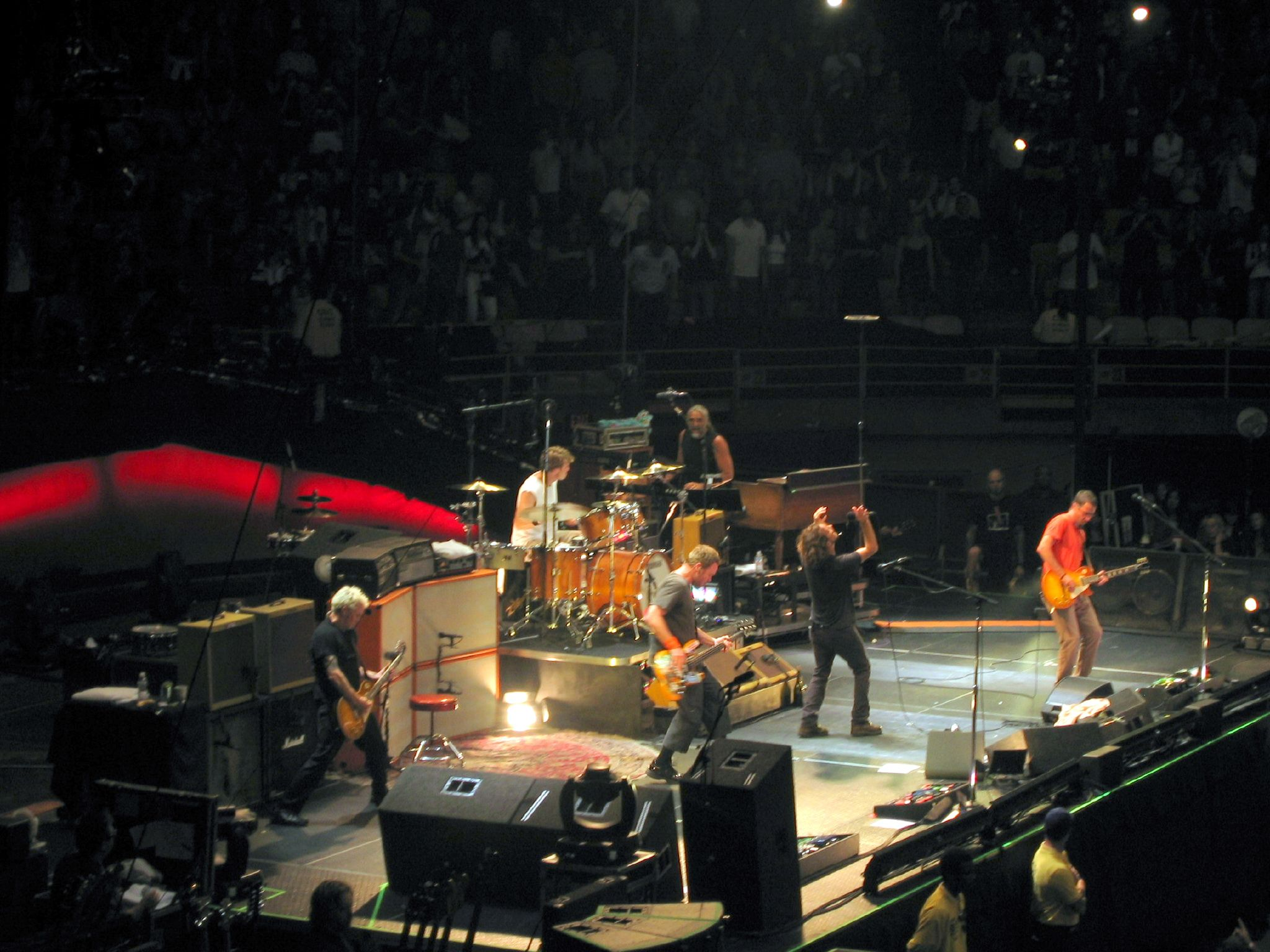 Pearl Jam - Los Angeles 7/10/06